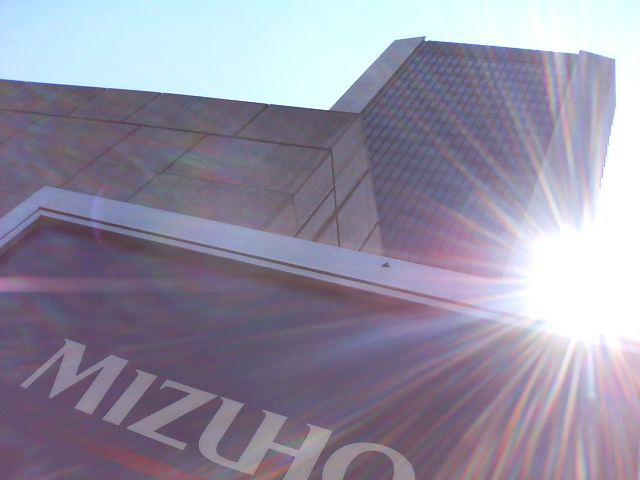 Mizuho Bank Head Office in Tokyo